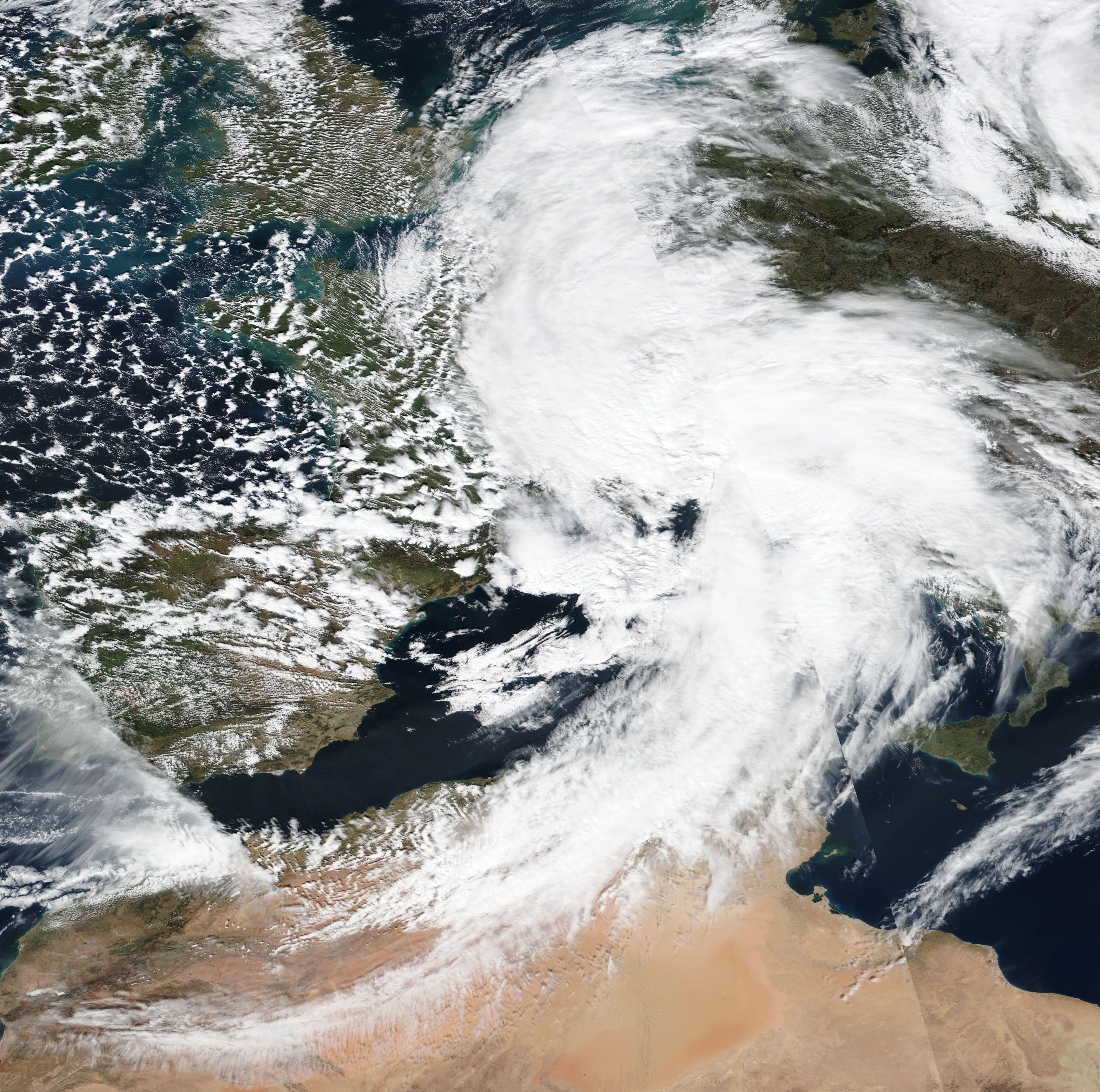 Storm Karine, of the 2019-20 European windstorm season, covering much of southern Europe on 2 March 2020.